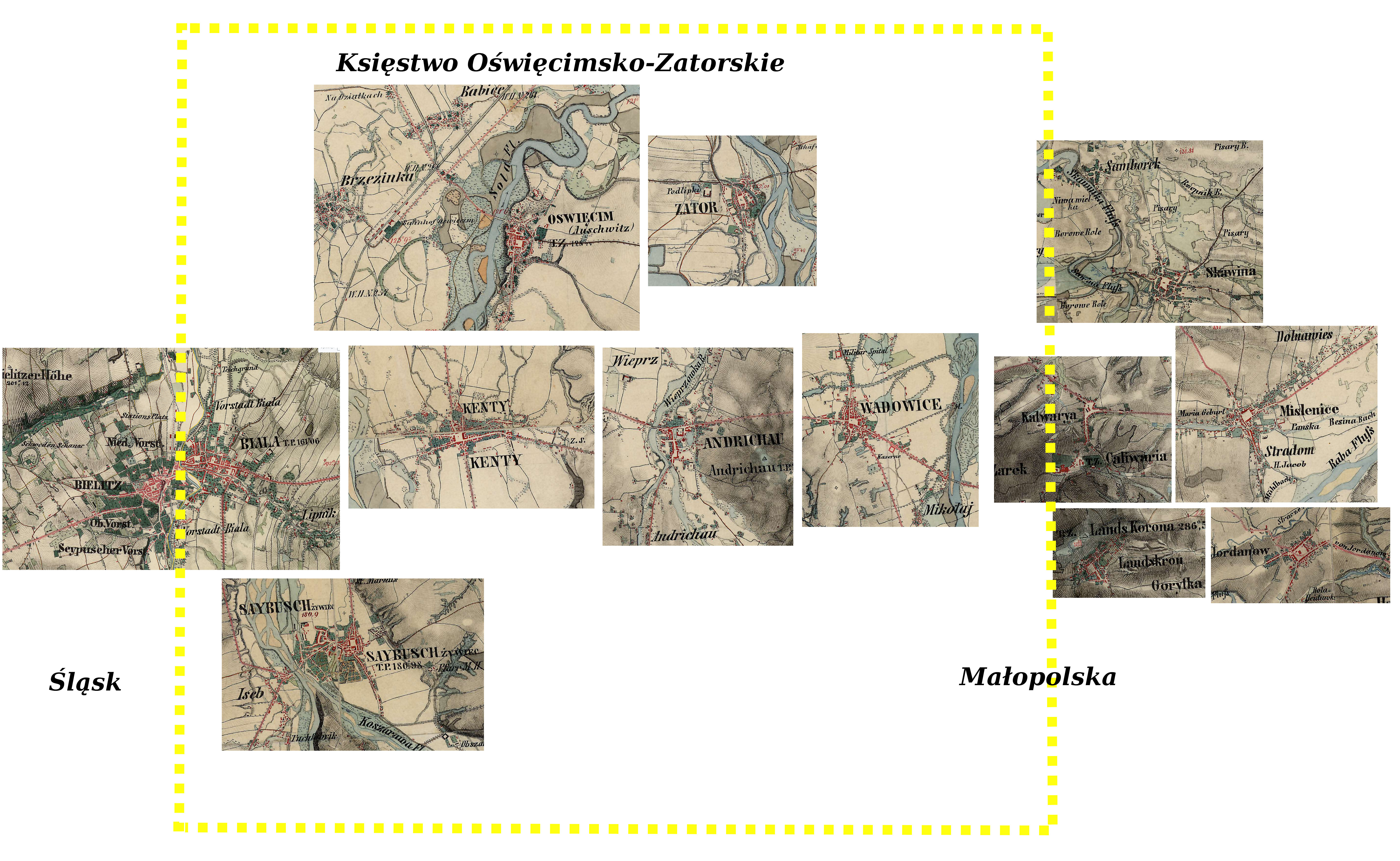 Towns in the area of the galician Kreis of Wadowice on the Austrian map from the mid-19th century